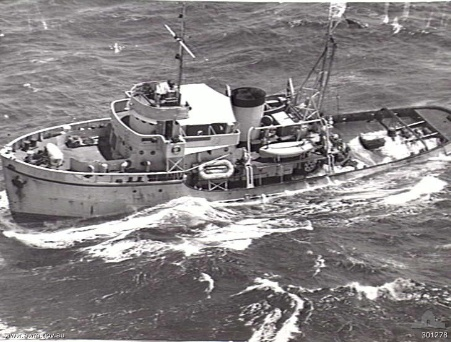 Aerial port side view of the Royal Australian Navy tugboat HMAS Reserve.